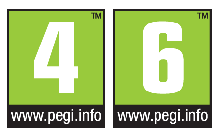 These are the Portuguese PEGI age labels replacing the standard 3 and 7 ratings.